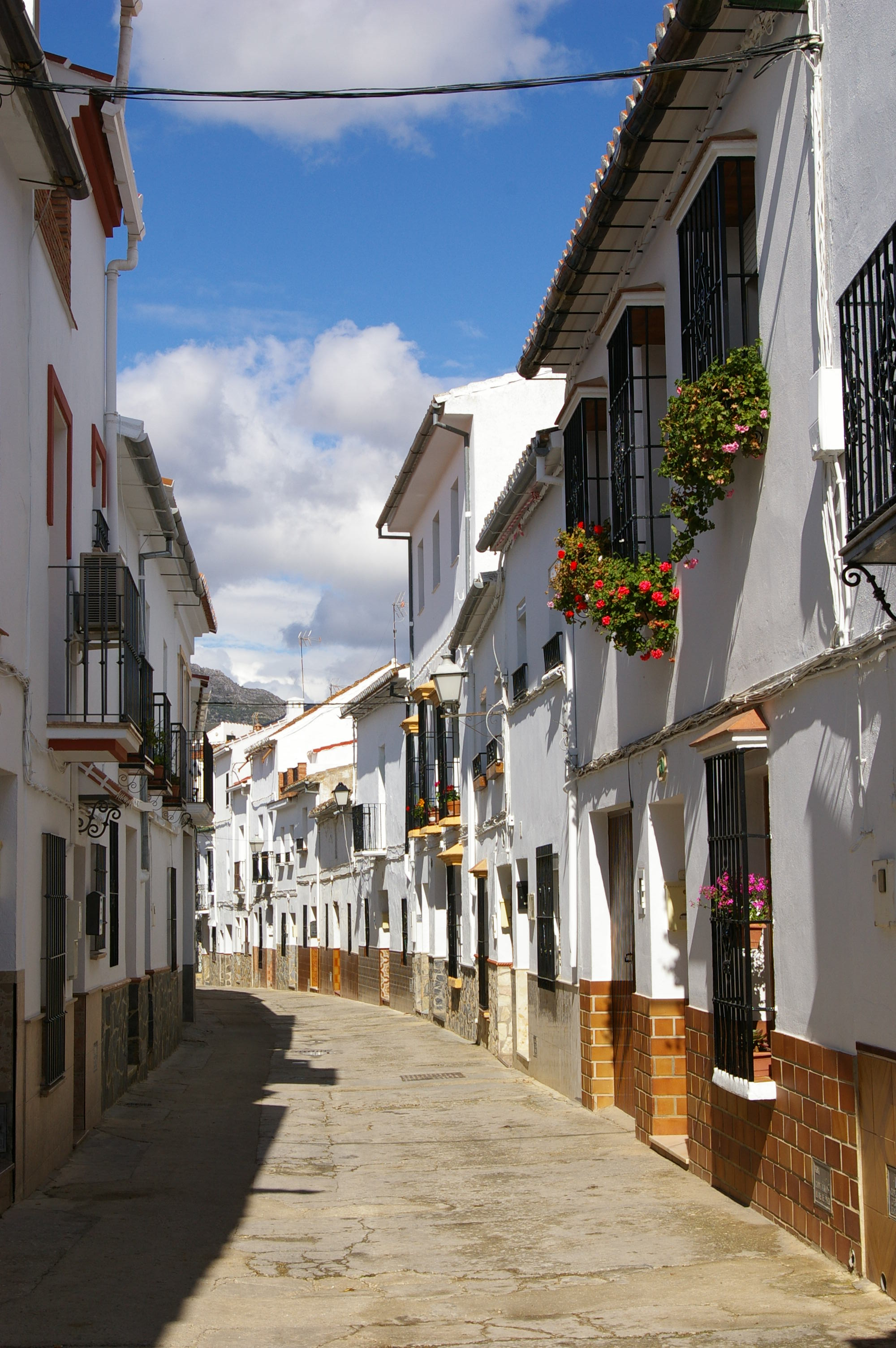 Yunquera (Malaga), Calle Nueva